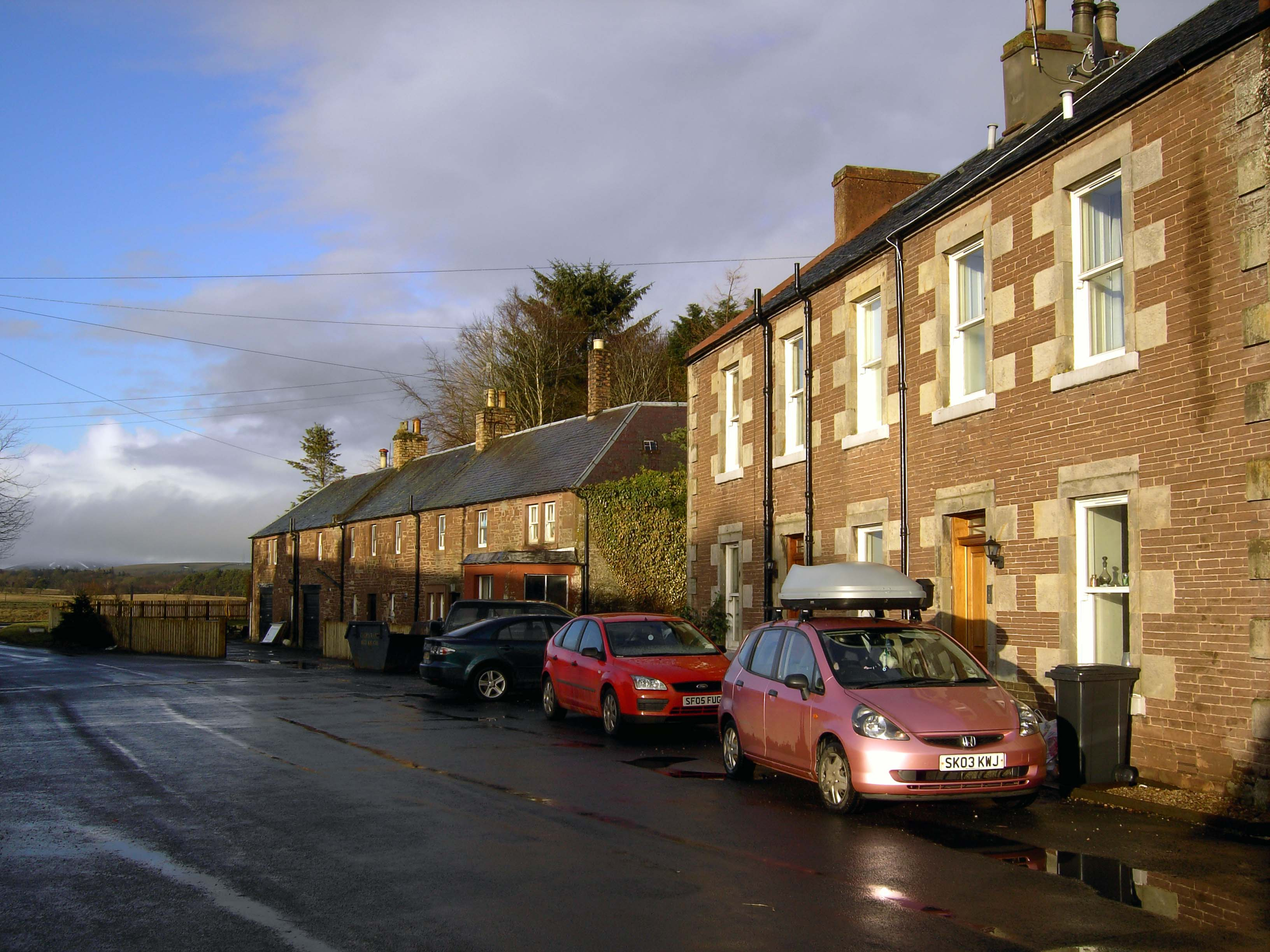 Romannobridge Houses next to the Newlands road in Romannobridge.